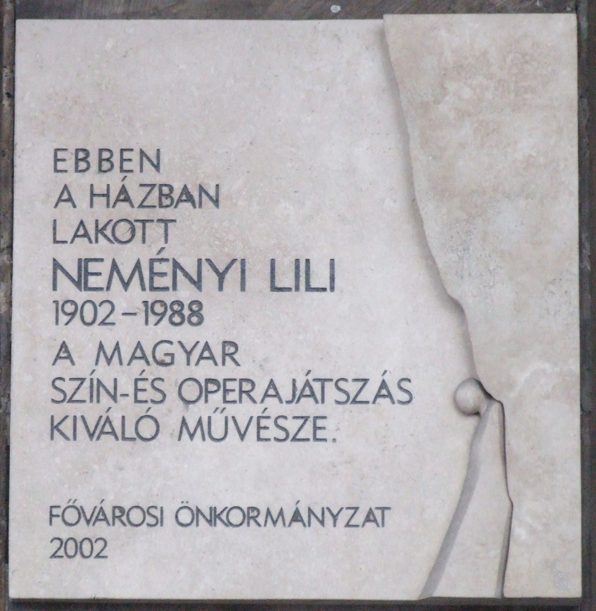 Lili Neményi commemorative plaque in Budapest District VII, Károly Boulevard No 13-15.